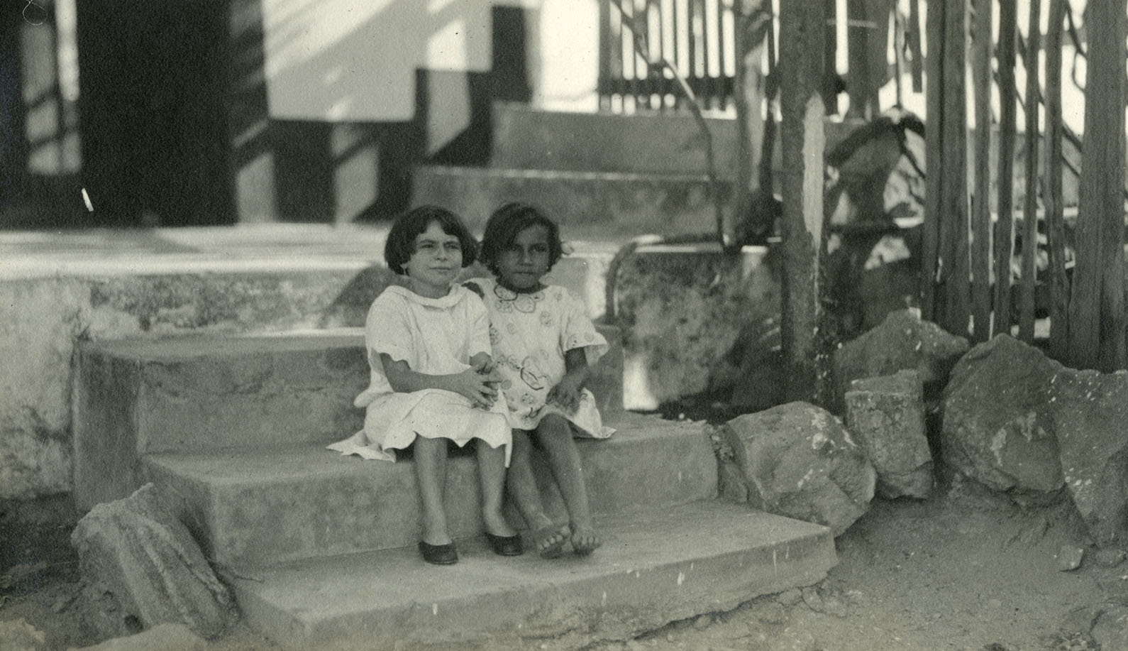 Creator: Mary Agnes Chase Local number: SIA2012-3330a Summary: SIA RU000229, Box 20, Folder 1; Photographs documenting Mary Agnes Chase's field work in Brazil, 1924-1925. Repository: Smithsonian Institution Archives View more collections from the Smithsonian Institution.